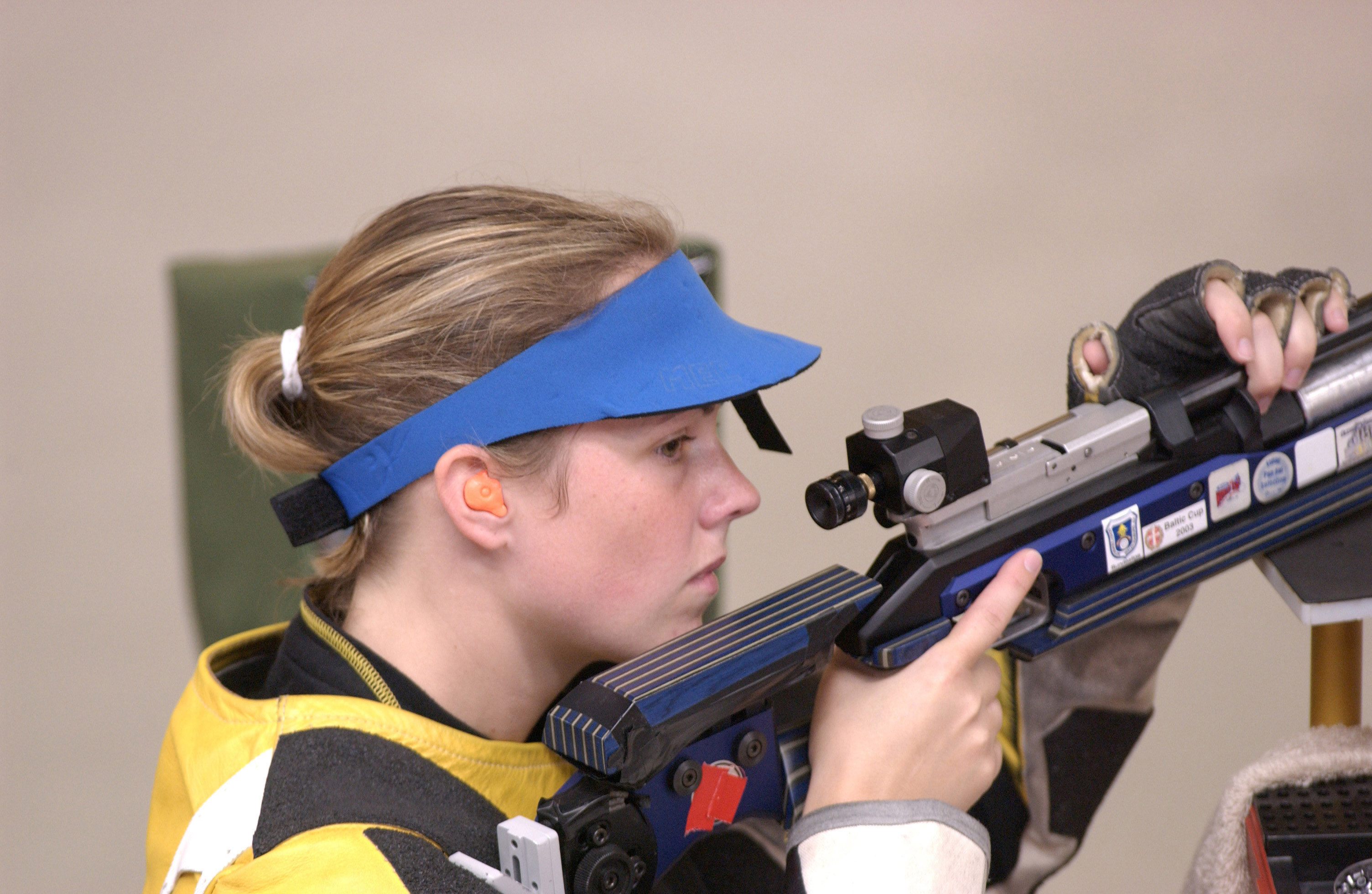 Hattie Johnson, Olympic shooter. Original description: Army Spc. Hattie Johnson competes in the woman's 10-meter air rifle event at the 2004 Olympics in Athens, Greece on Aug. 14, 2004. The 22-year-old Johnson placed 14th in a field of 44 in her first Olympic competition. Johnson is assigned to the U.S. Army Marksmanship Unit at Fort Benning, Ga. DoD photo by Master Sgt. Lono Kollars, U.S. Air Force. (Released)